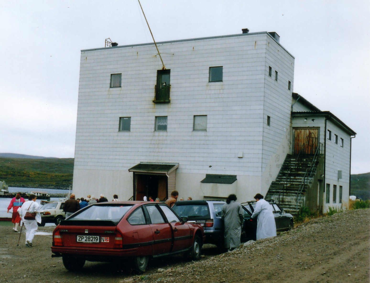 The village hall of Skansen in Båtsfjord, North Norway, during a deanery meeting